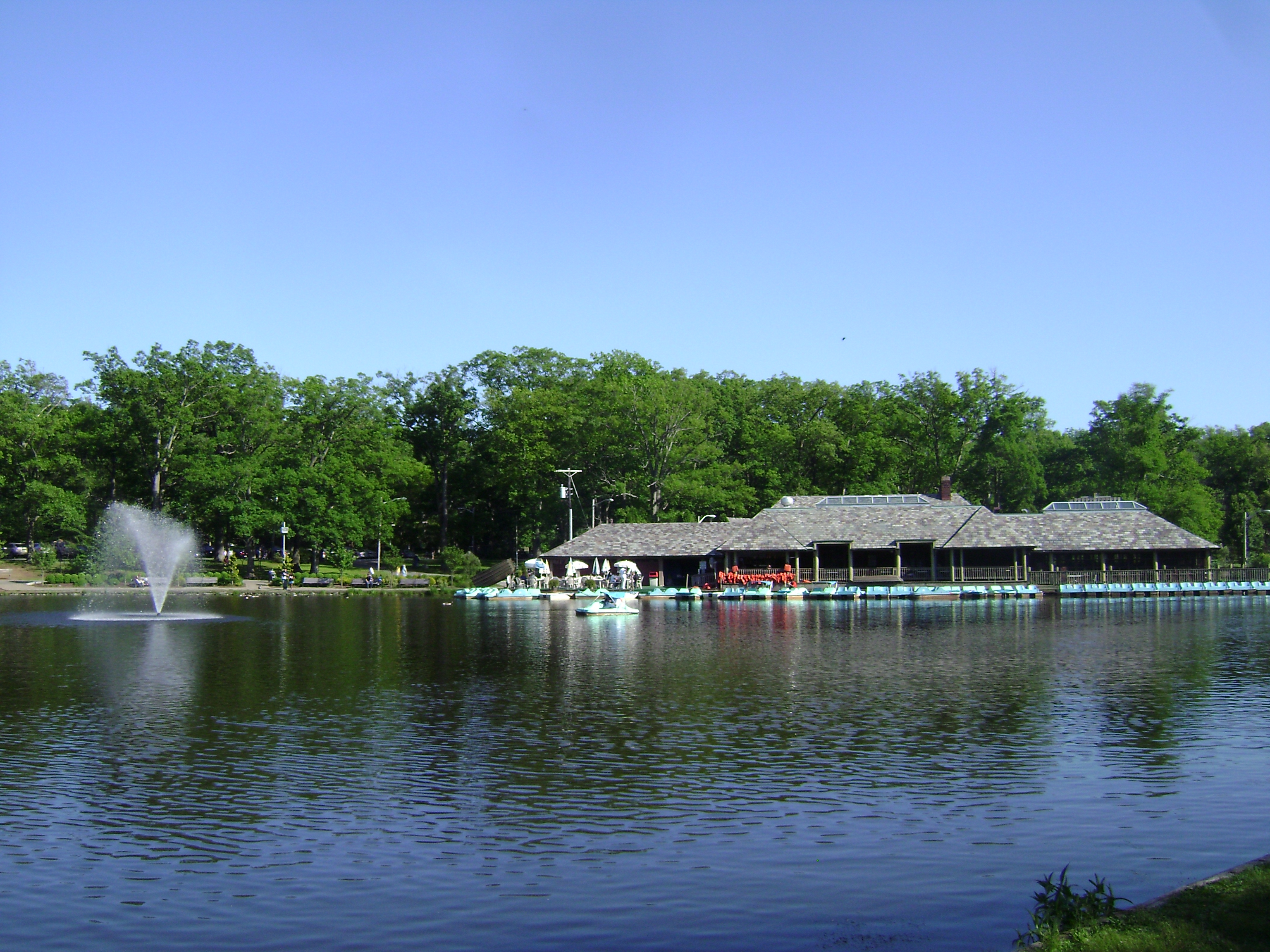 A View of the Verona Boathouse from the northwest shore of Verona Lake